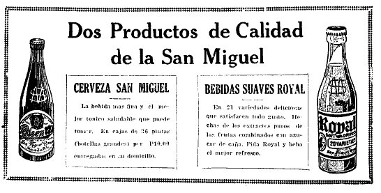 An advertisement from the 1920's for San Miguel beer that appeared in a Manila-based Spanish magazine.